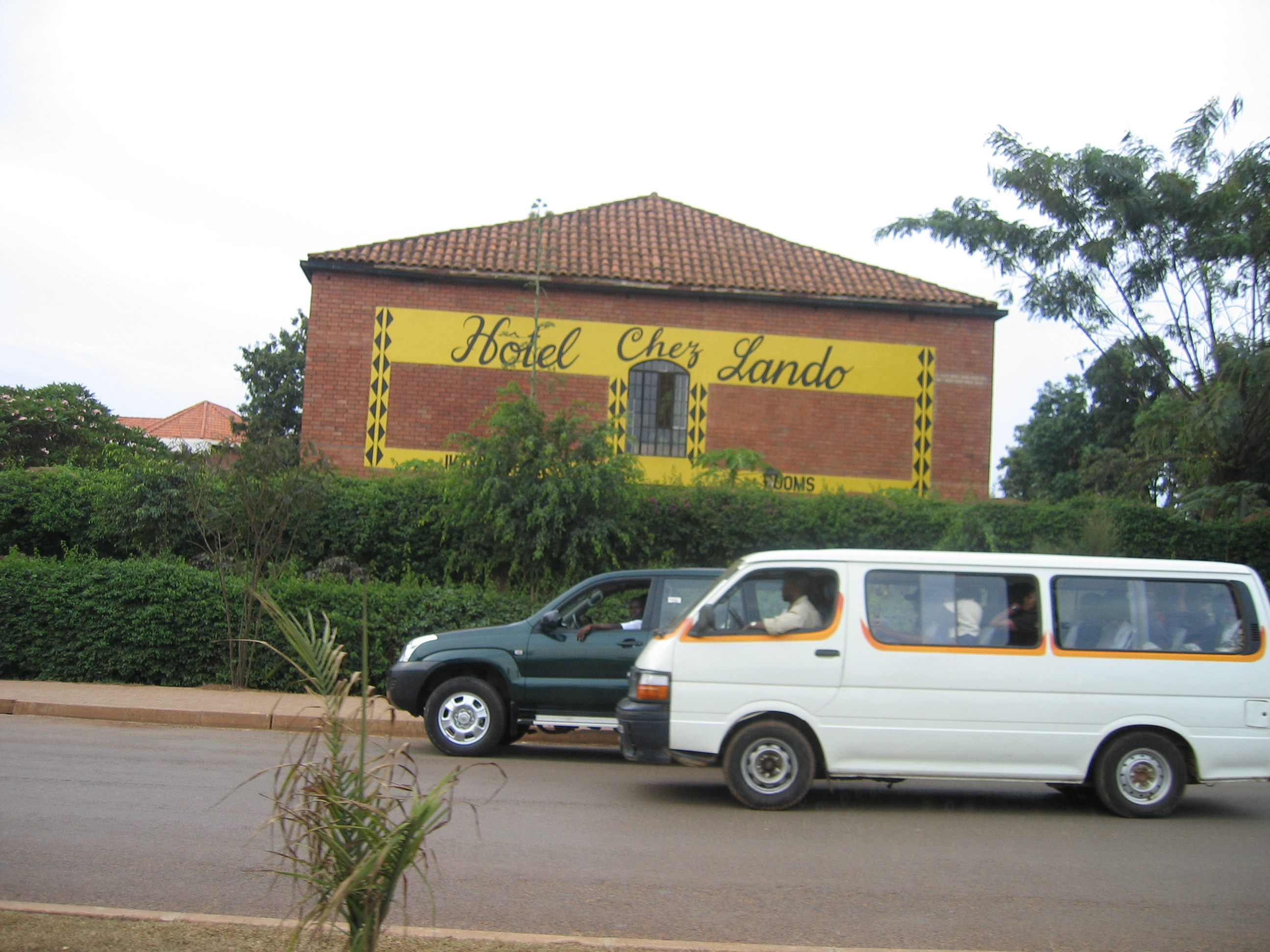 A view of the Hotel Chez Lando in Kigali, Rwanda